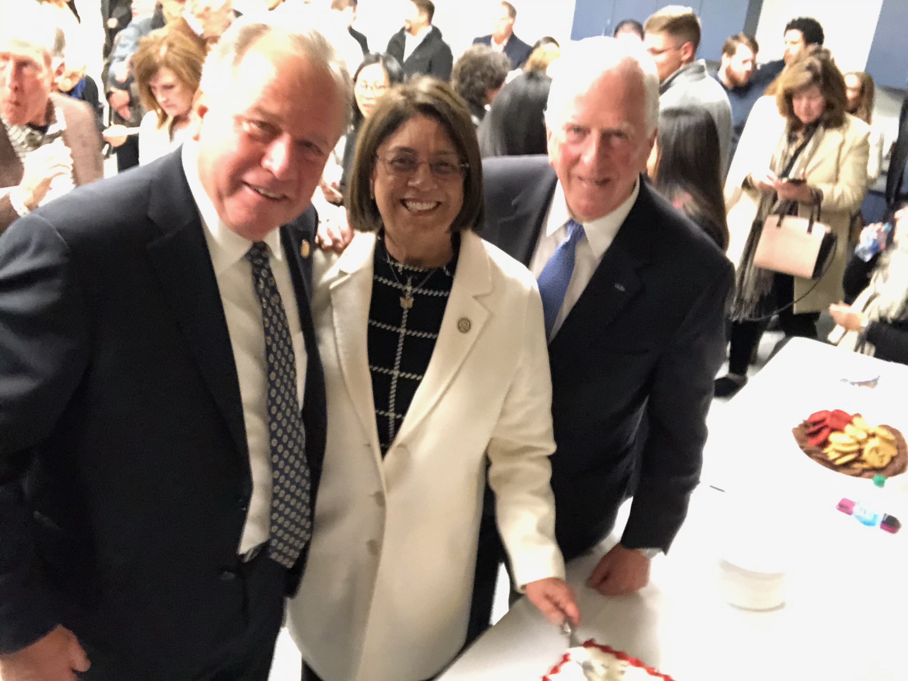 What a great night at my Napa Open House with @SenBillDodd and @AsmAguiarCurry! Great listening to so many constituents from across Napa Valley.